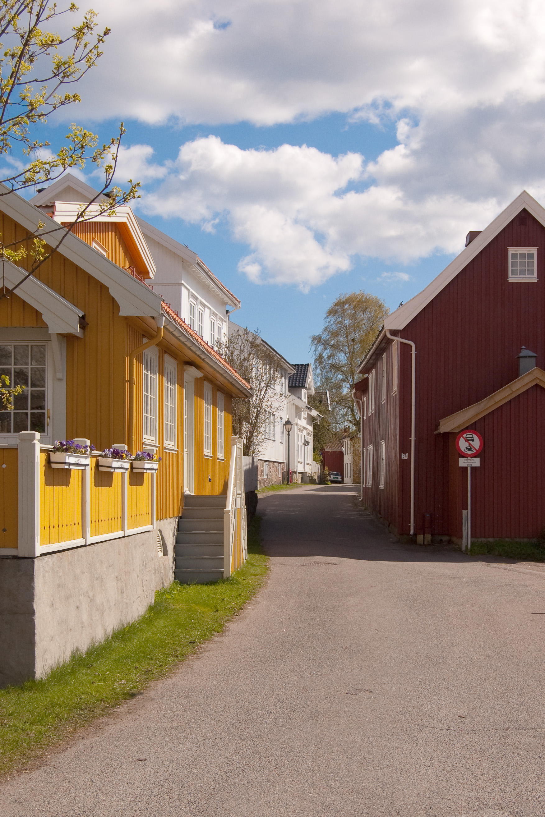 Nordbyen, Tønsberg, Norway